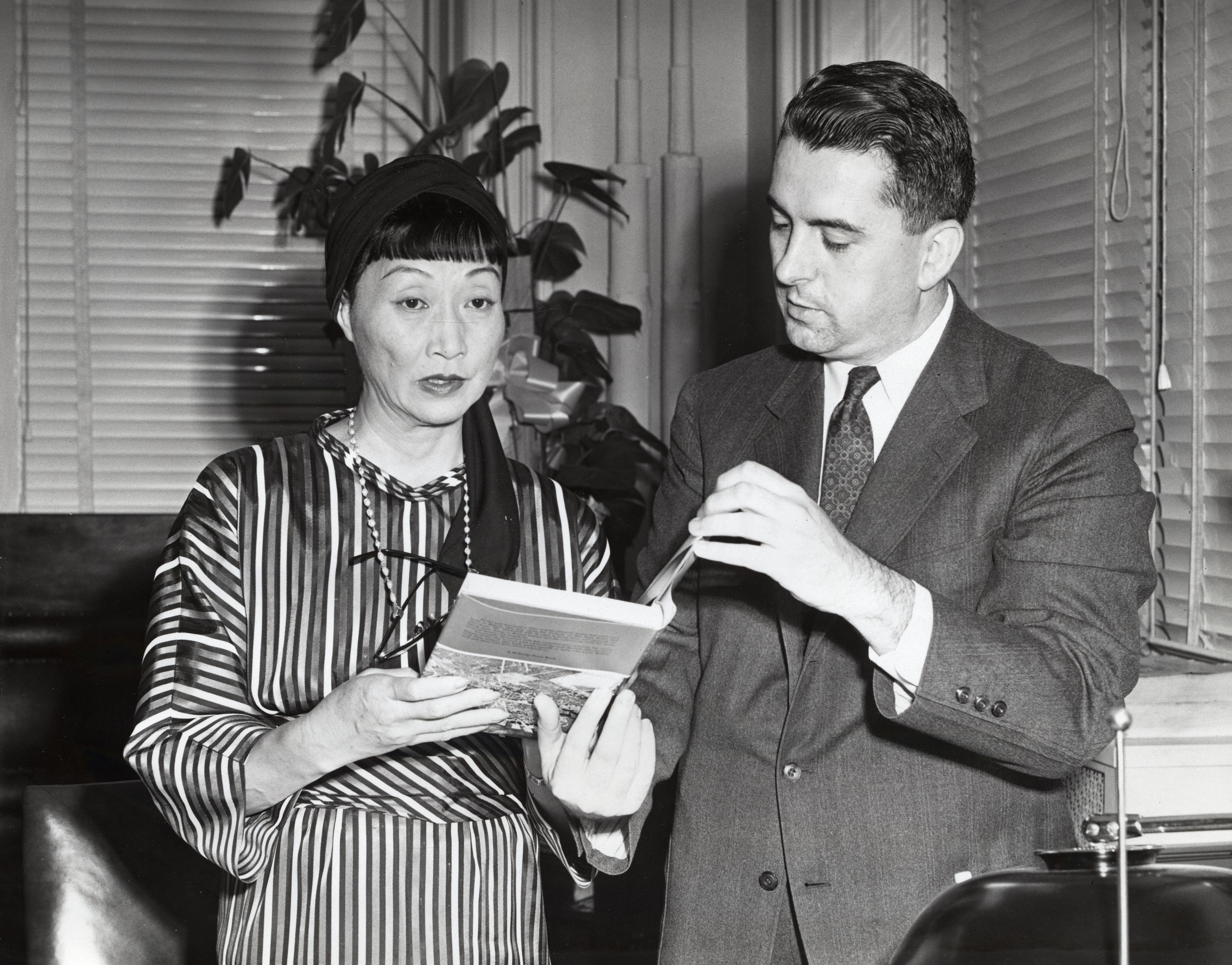 Title: Actress Anna May Wong and Deputy Mayor John McMorrow Creator: City of Boston Date: circa 1960-1968 Source: Mayor John F. Collins records, Collection #0244.001 File name: 244001_1045 Rights: Copyright City of Boston Citation: Mayor John F. Collins records, Collection #0244.001, City of Boston Archives, Boston